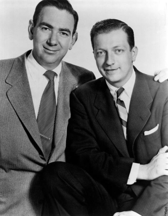 Photo of comedians Bob Elliott and Ray Goulding, known as Bob and Ray.